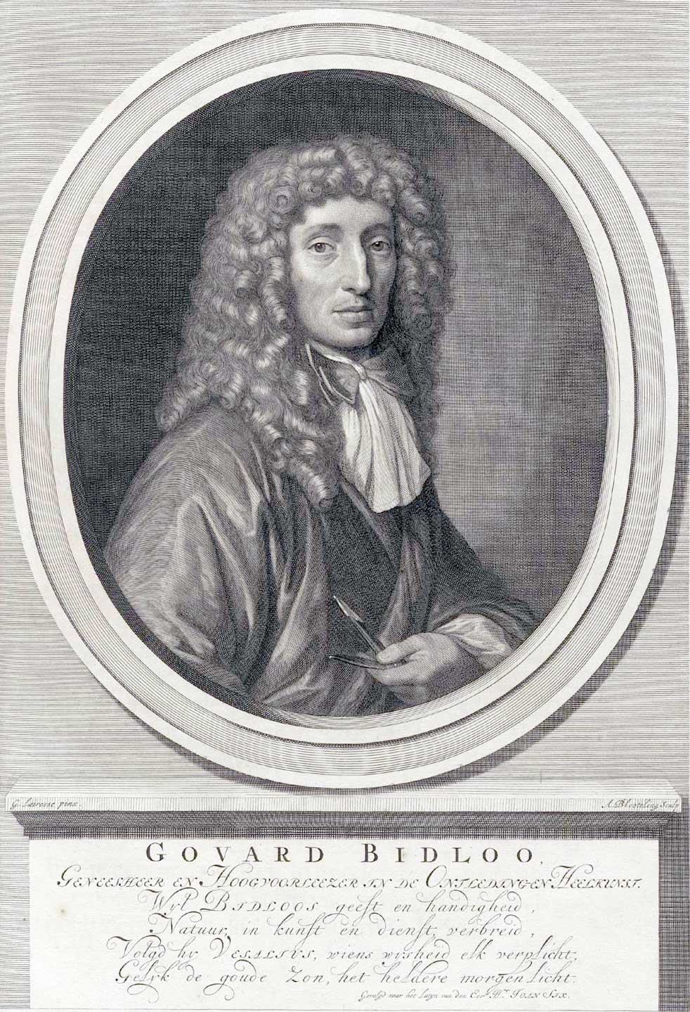 Ontleding des menschelyken lichaams... Amsterdam, 1690. Copperplate engraving with etching. National Library of Medicine. Portrait of Govard Bidloo (1649-1713) by the artist Gérard de Lairesse (1640-1711). Further information can be found on the category page. Uploader=--Kuebi 13:21, 2 April 2007 (UTC)